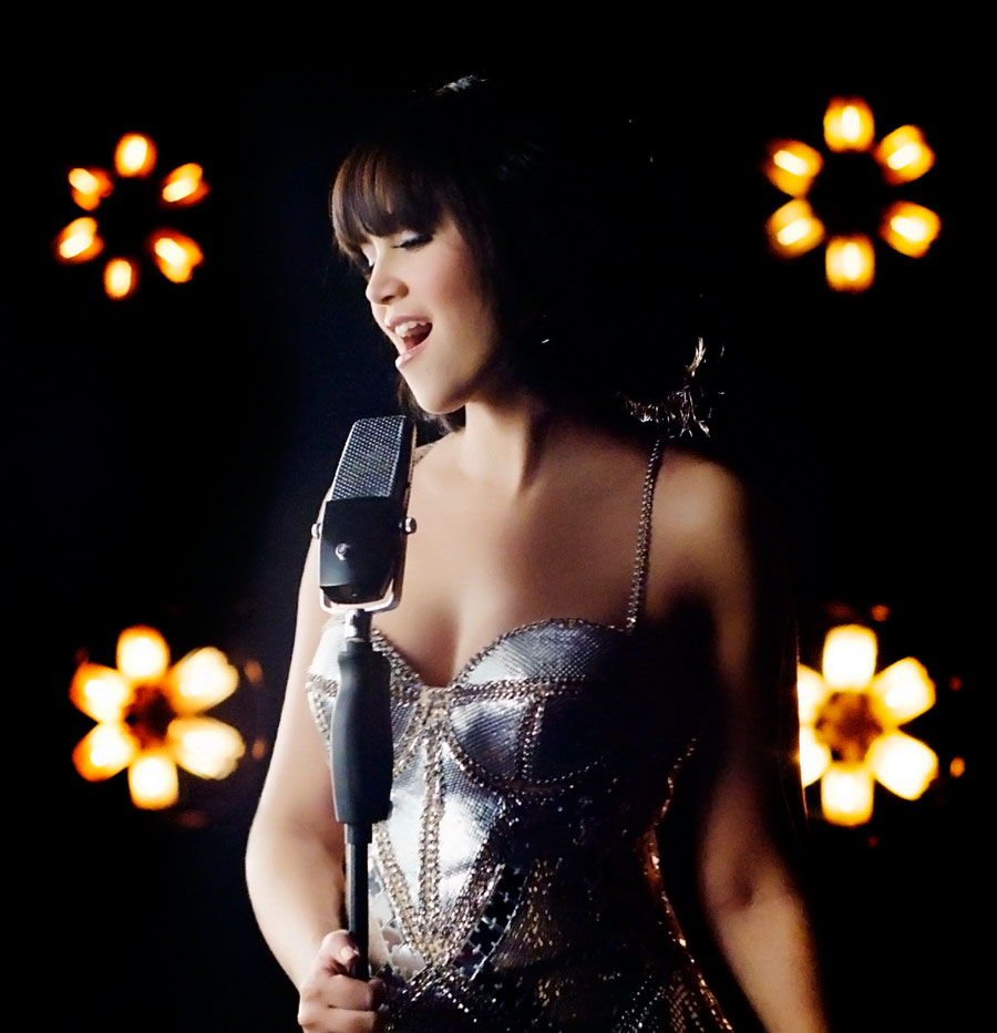 Tata picture